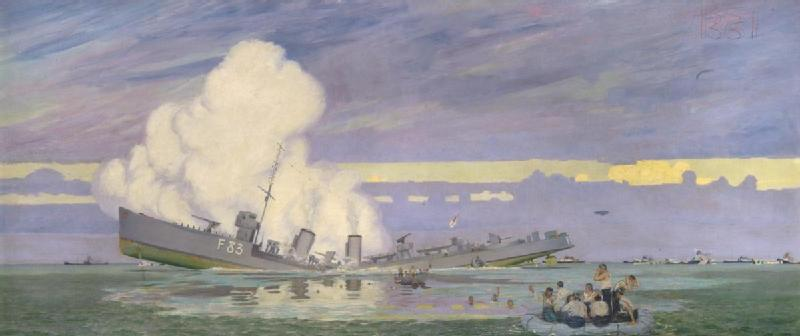 image: The Royal Navy destroyer HMS Ullswater in the process of sinking, having been torpedoed amidships. The destroyer is shown port side on and has virtually been cut in half by the torpedo. In the foreground survivors are sitting in a rubber life-ring and other sailors are in the water. Further shipping is visible in the background.